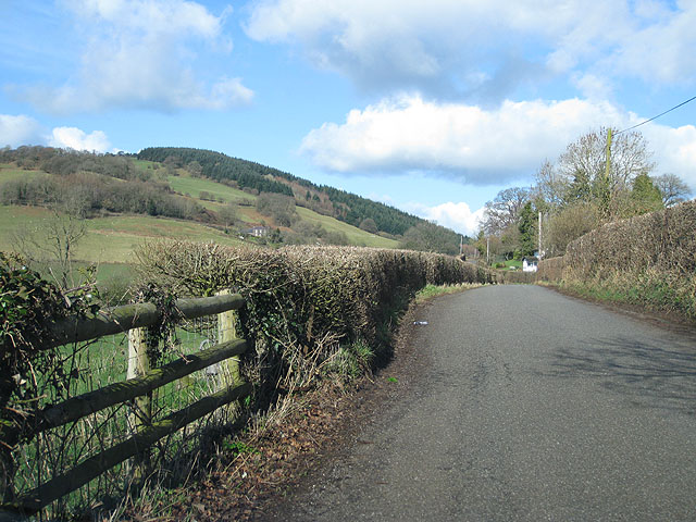 B Road to Grosmont Black Brook valley to the left and the wooded slopes of Graig Syfyrddin ahead. The B4347 travels towards Grosmont from Skenfrith.